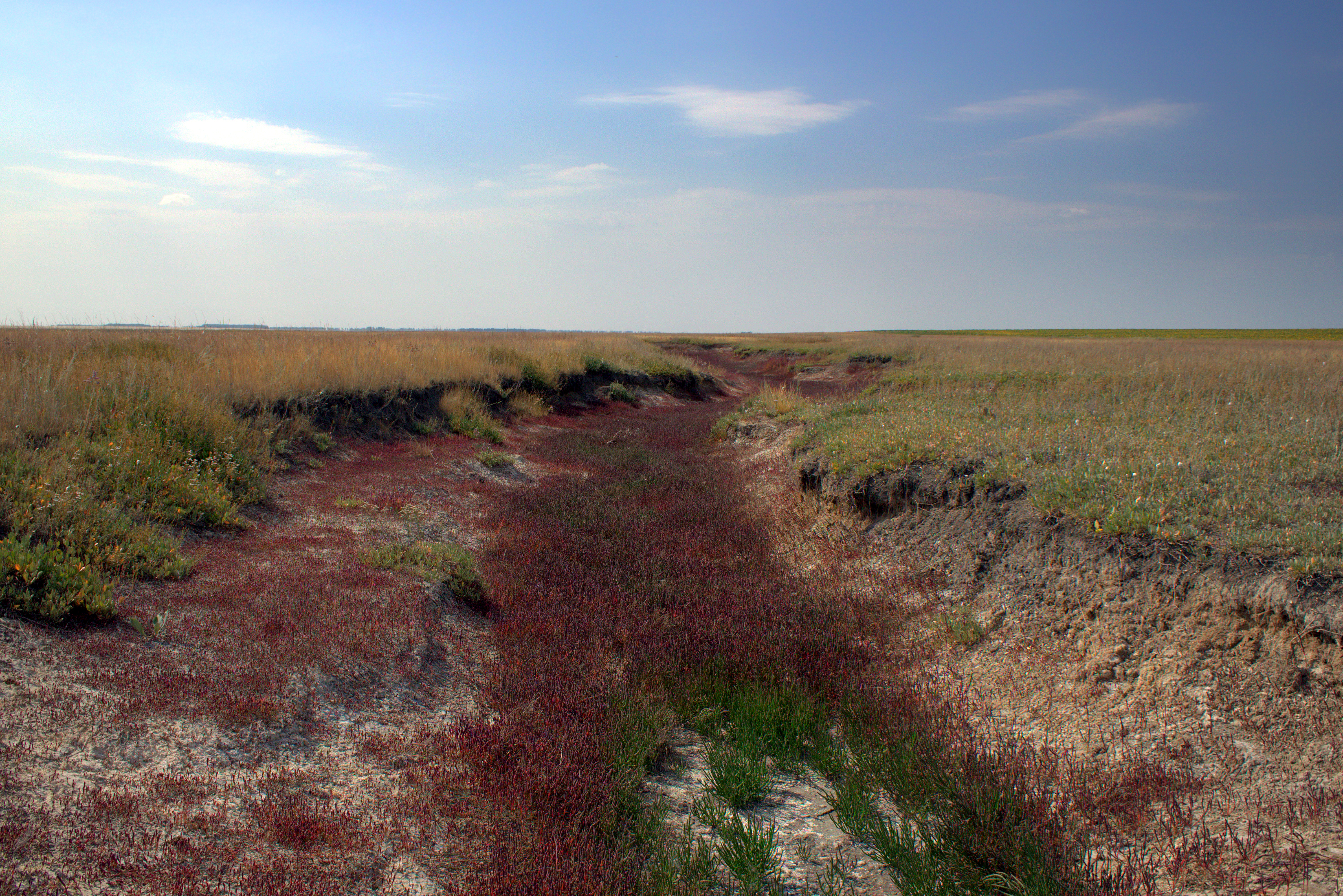 Kamyshlowskiy log